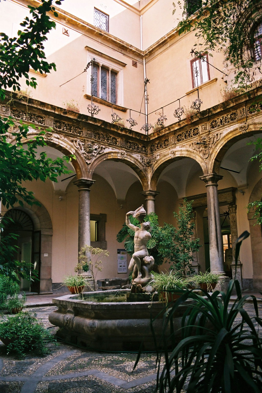 "Fountain of the Triton" in the 16th century entrance cloister to the Archaeologial Museum in Palermo, Italy. The fountain was sculpted by an unknown Mannerist artist (16th century), the conche has been restored by replacing it with a modern replica. Picture by Giovanni Dall'Orto, September 26 2006.